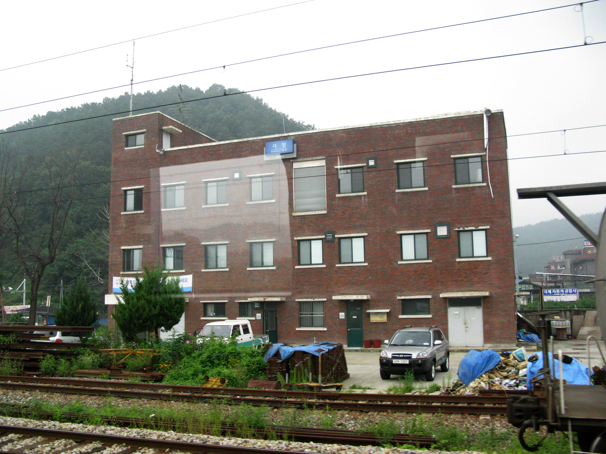 Gyeongbu, Osong Line Seochang Station